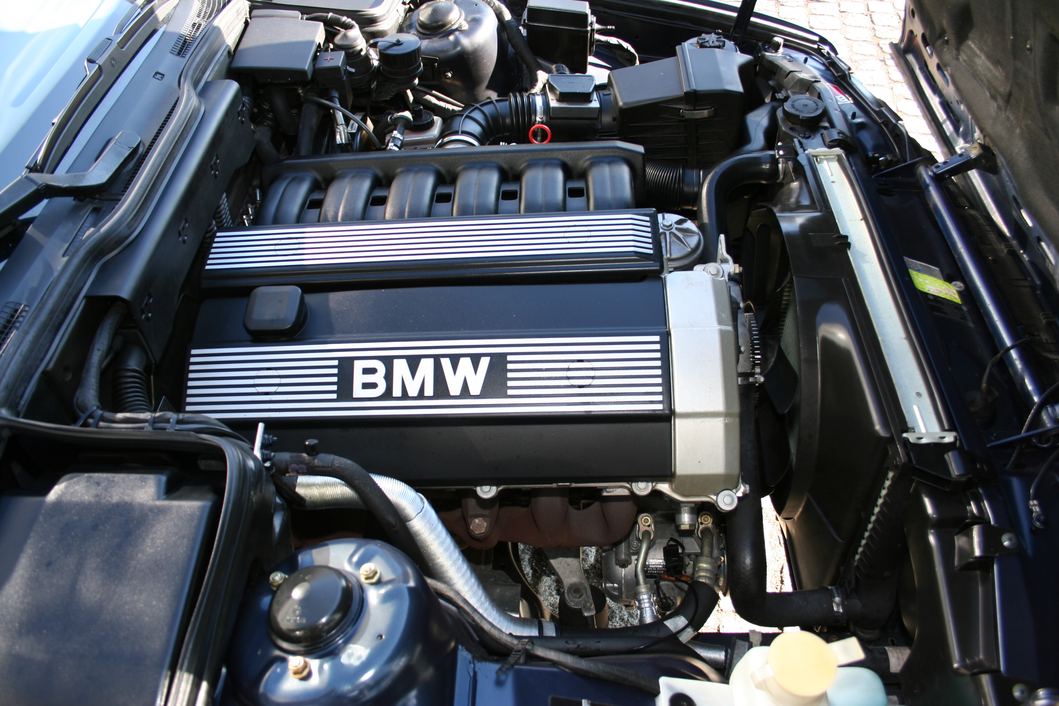 Engine of BMW E34, 525i Touring 1993